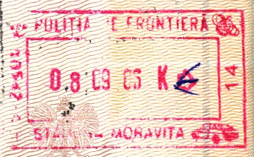 Passport stamp from Stamora Moravita, 2006. Border crossing into Serbia at Vatin.